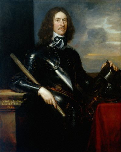 Sir Arthur Haselrig (1601-1661)